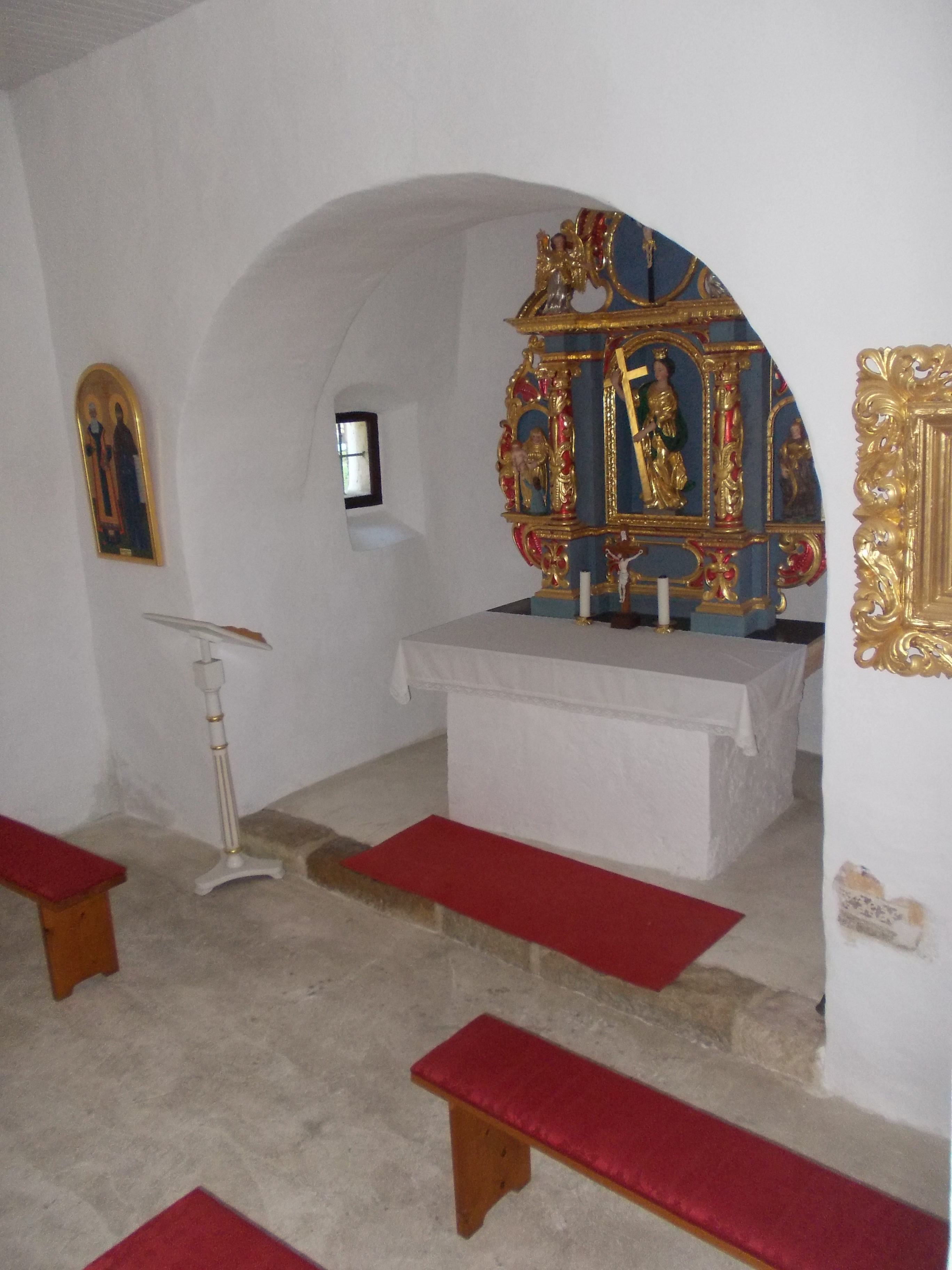 St. Helena Church (Draga)